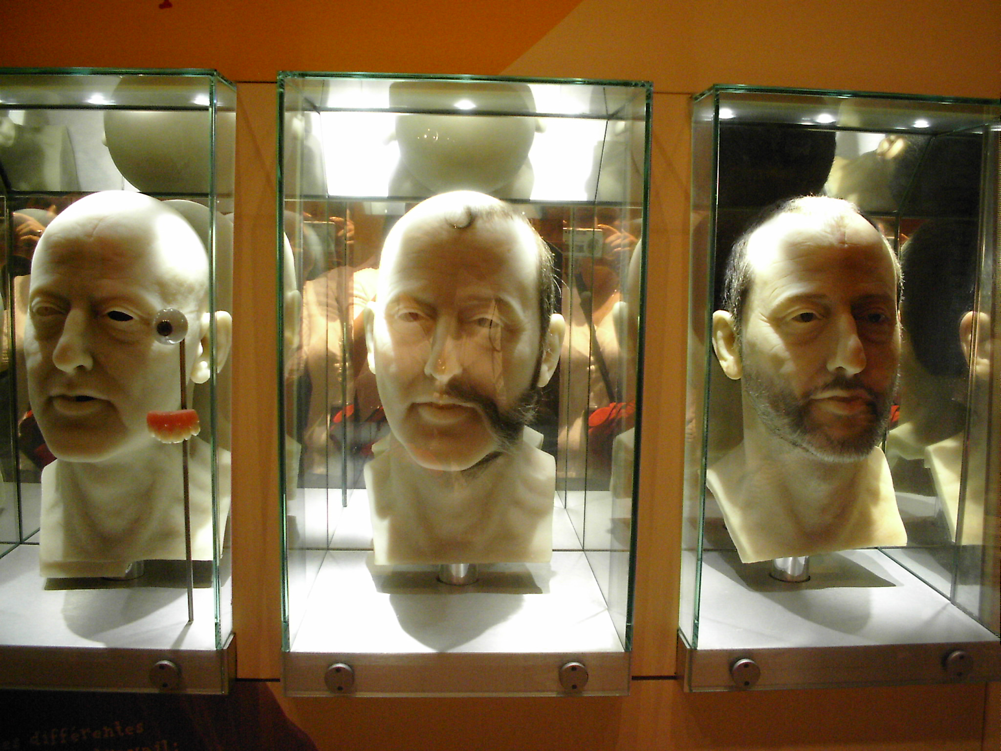 making a head (the one of Jean Reneau)